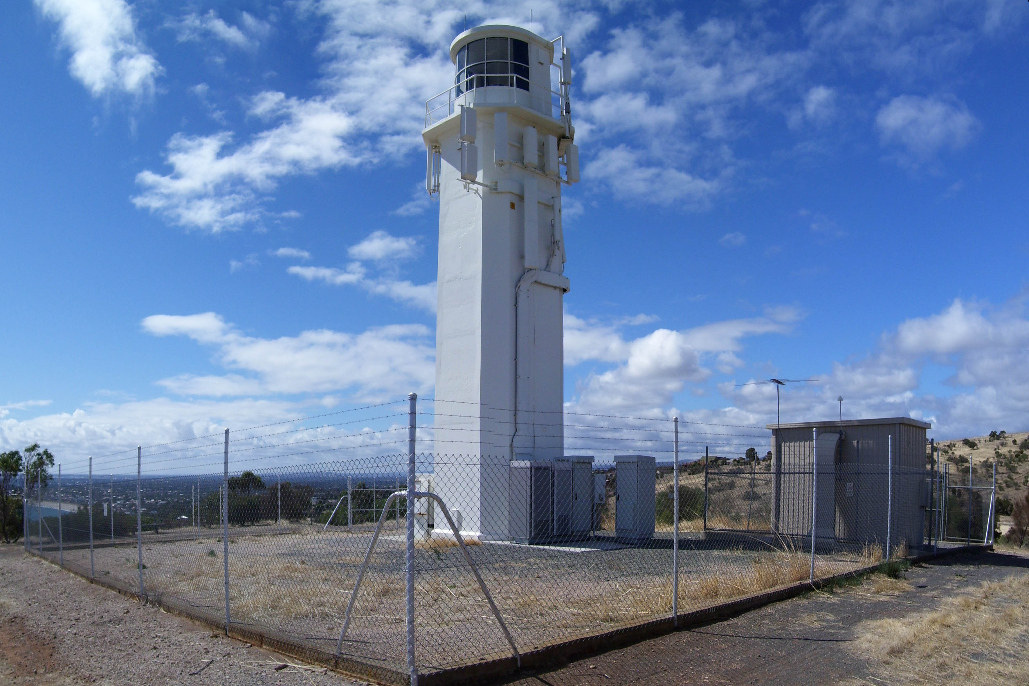 Marino Conservation Park lighthouse looking northeast. Panorama.